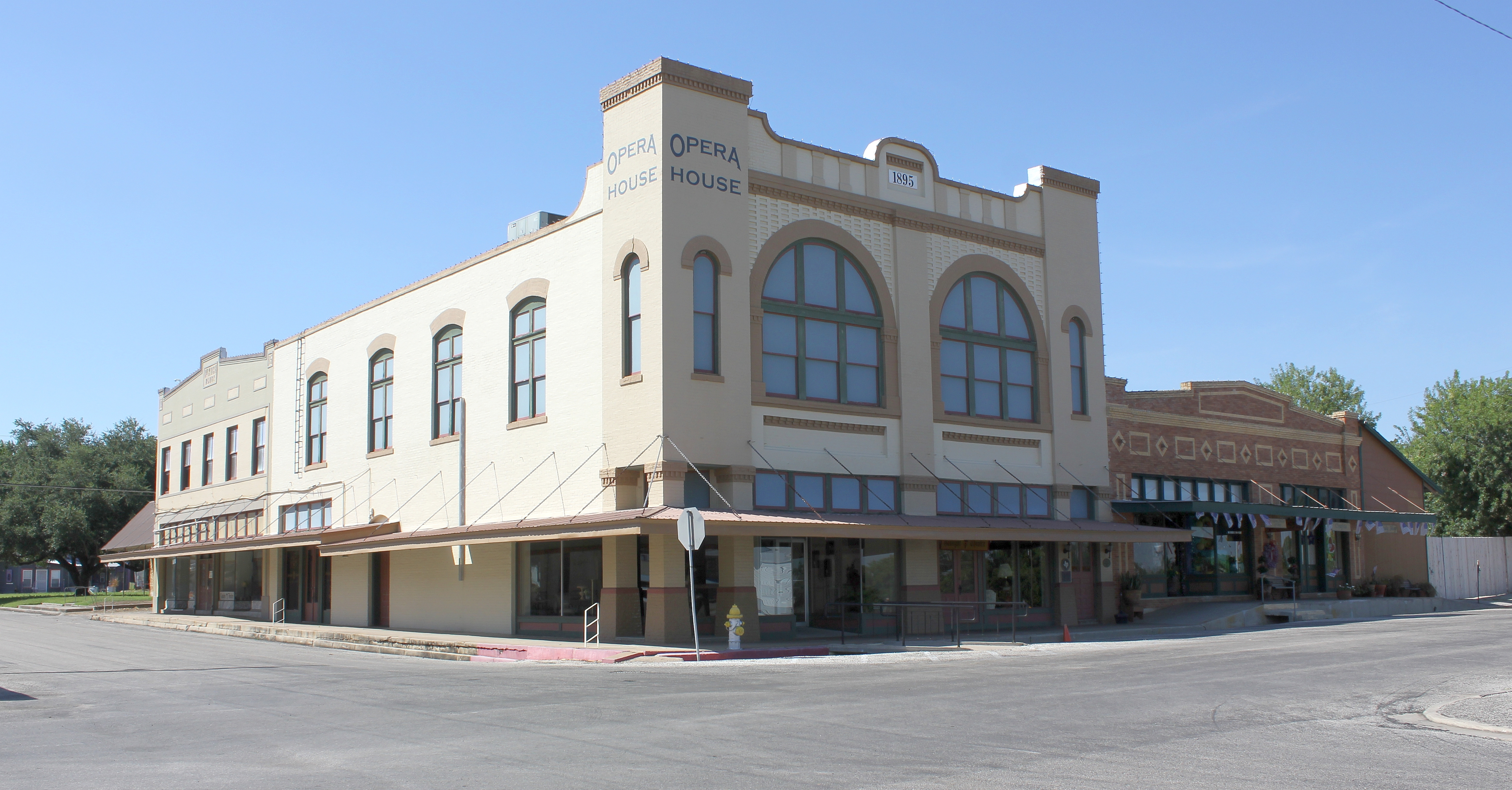 Opera House, Shiner, Texas.